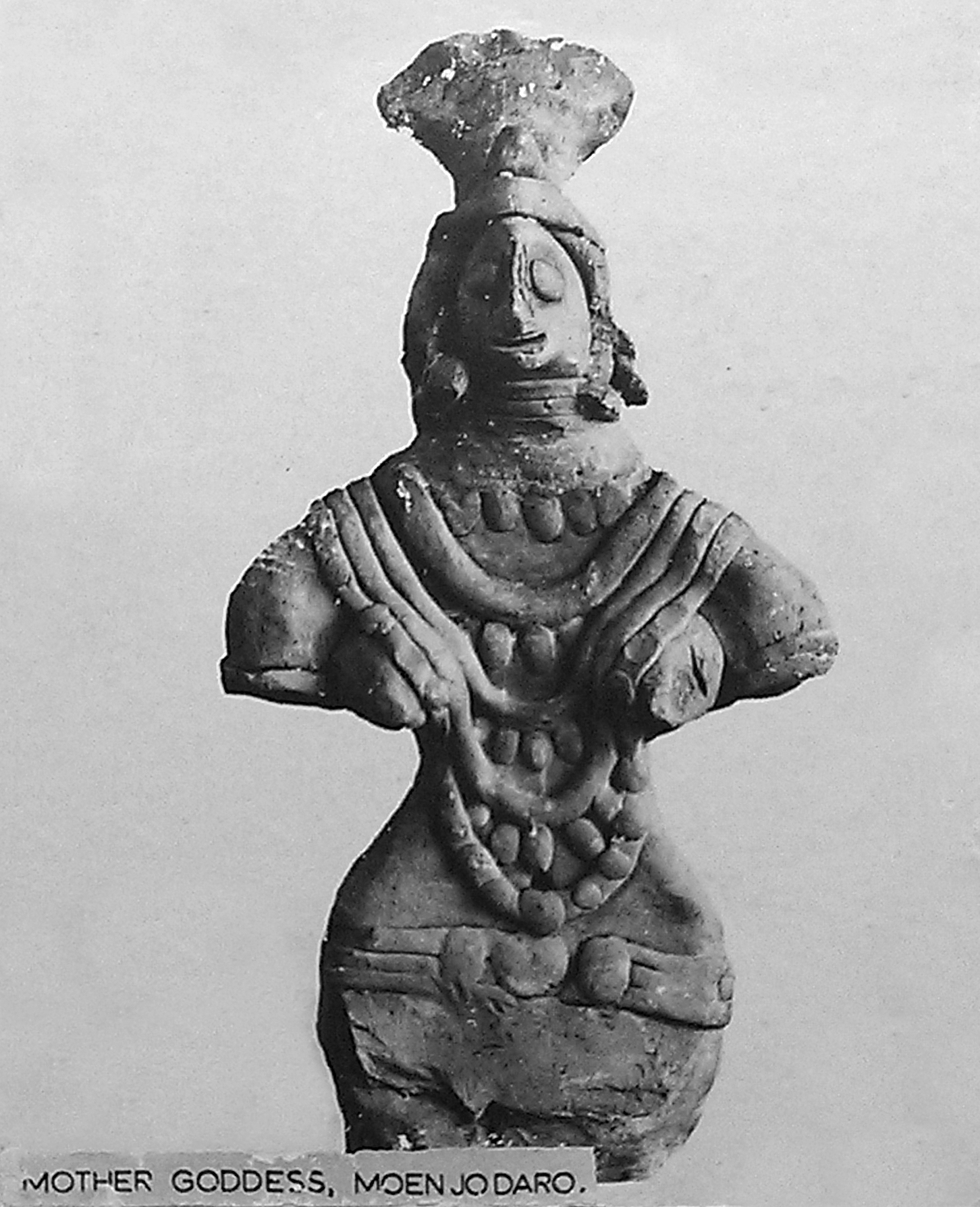 Moenjodaro This is a photo of a monument in Pakistan identified as the SD-41